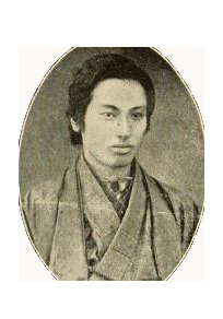 Masayoshi Oshikawa, 1878